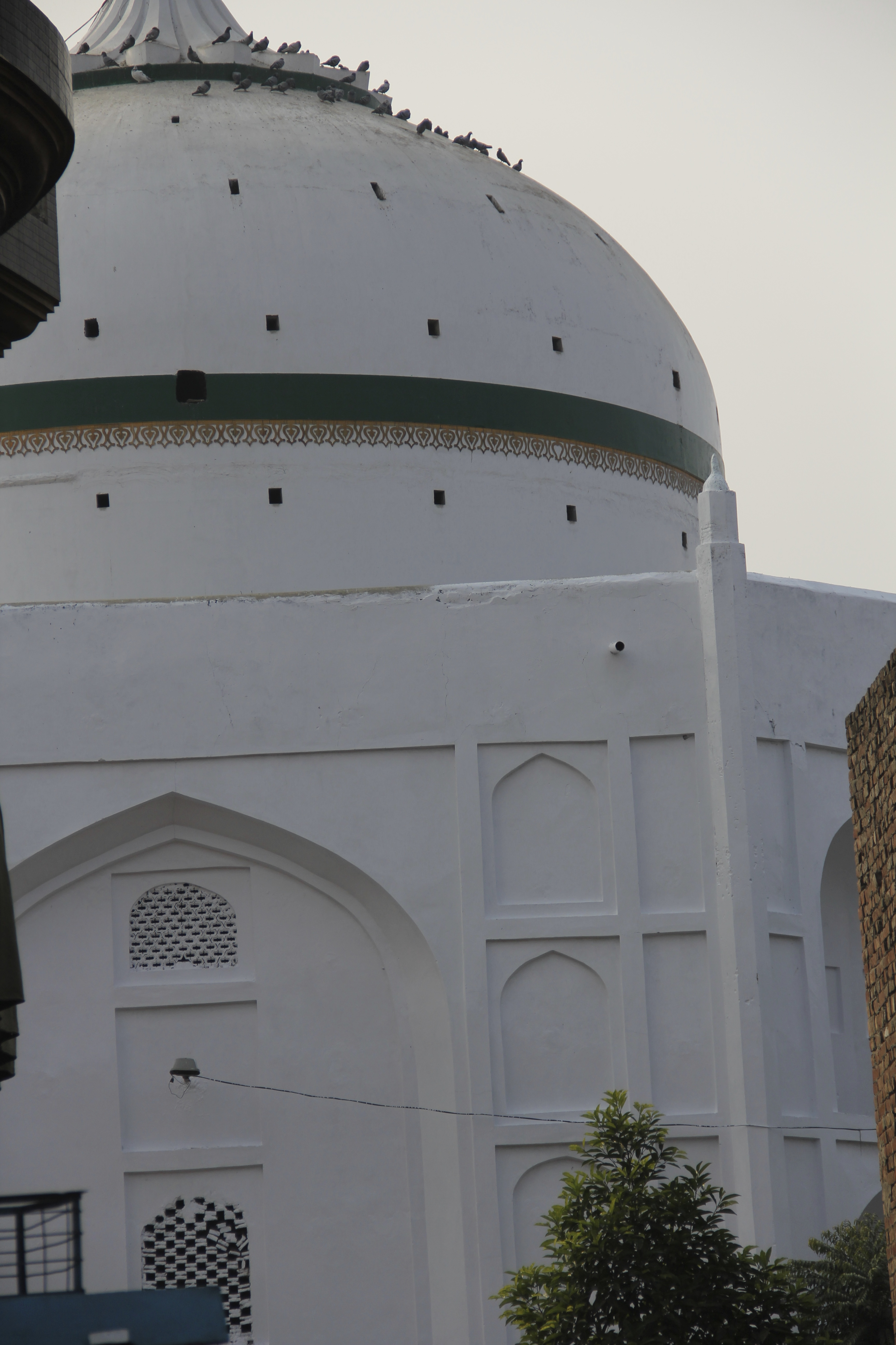 Darbare Hazrat Ishaan after the renovation of his descendant Hazrat Khwaja Sayyid Mir Sultan Masood Dakik